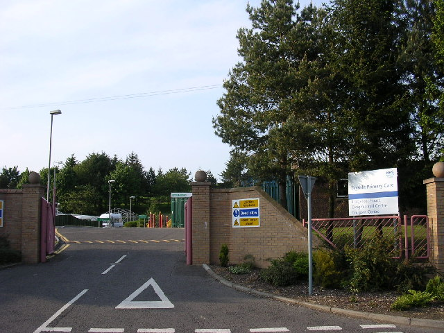 Strathmartine Hospital. Much of the southern portion of this grid box is occupied by this psychiatric, day care and rehabilitation hospital.